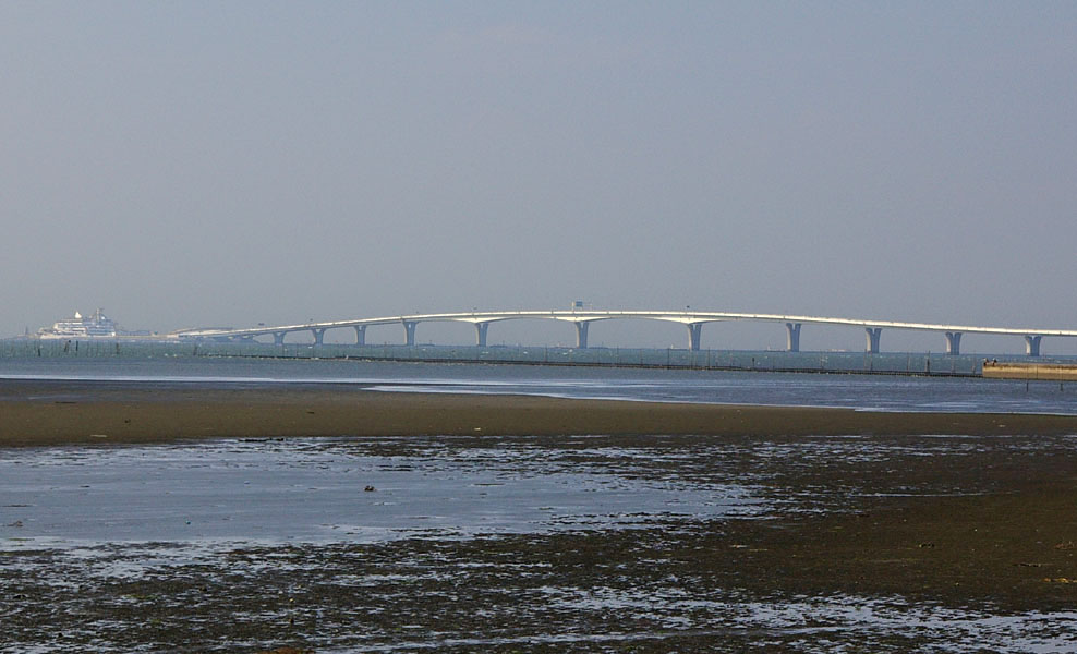 Tokyo bay aqua line. This bridge is east-half of the line.